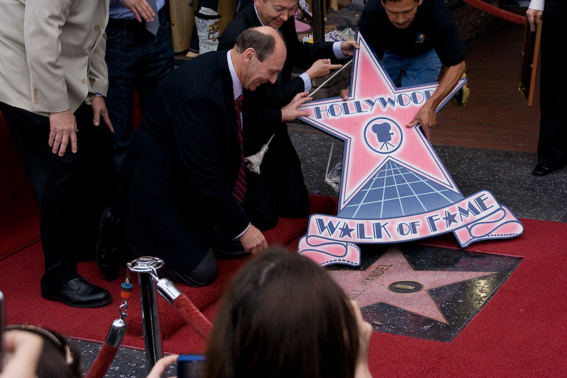 Bill Handel uncovering his star on the Hollywood Walk of Fame